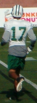 Britt Davis during practice